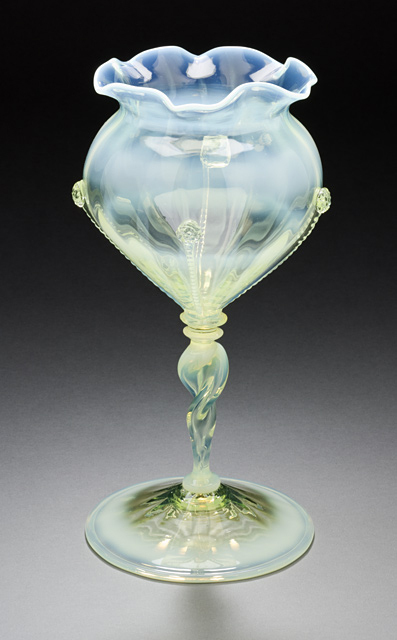 circa 1895 Furnishings; Serviceware Glass Height: 8 1/8 in. (20.63 cm) Decorative Arts and Design Council Fund (M.2008.28) Decorative Arts and Design